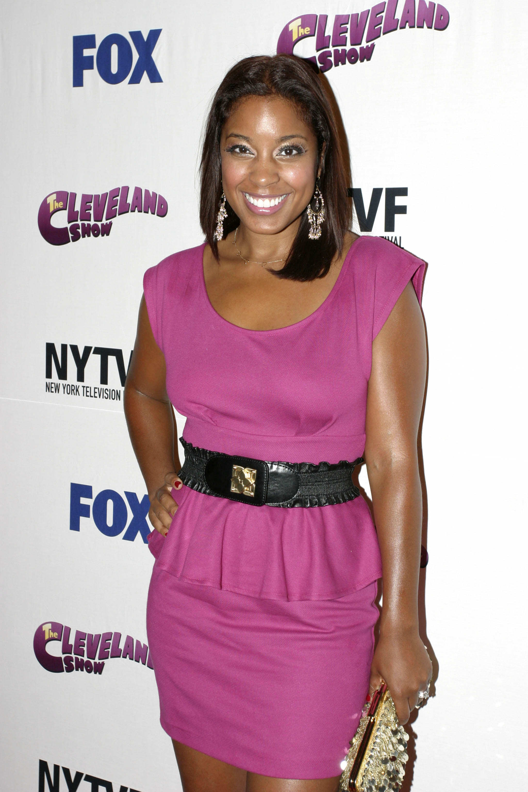 Reagan Gomez-Preston at the 2009 New York Television Festival. © Rubenstein, photographer Martyna Borkowski